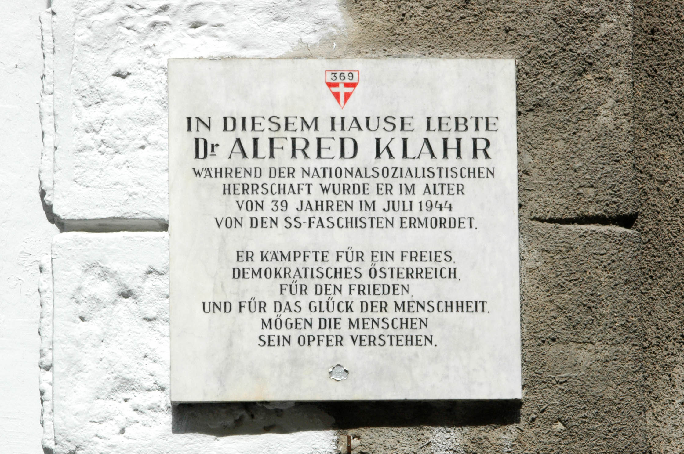 Alfred Klahr (born September 16, 1904 in Vienna – murdered by an SS patrol July 1944 in Warsaw) was an Austrian State scientist, journalist and Communist. Commemorative plaque in Vienna 2, Novaragasse 17.